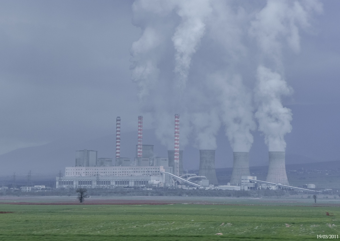 Agios Dimitrios (St. Demetrius) steam power plant, Kozani, Makedonia, Greece.